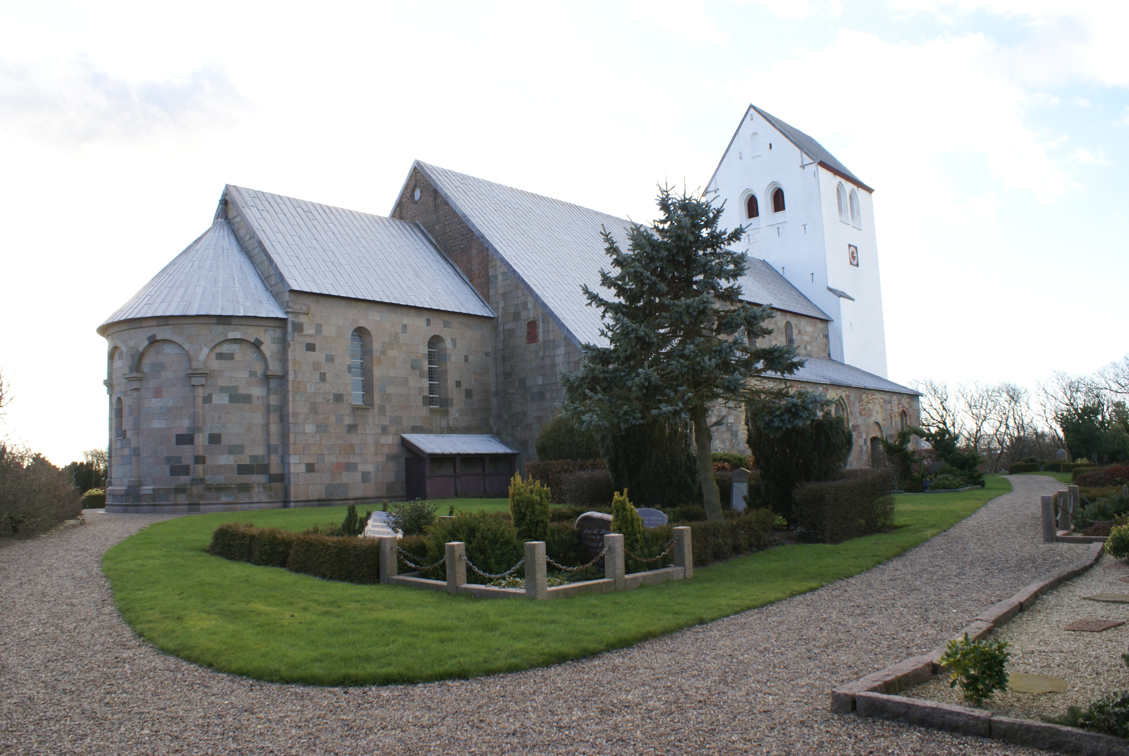 Church of Vestervig, Denmark